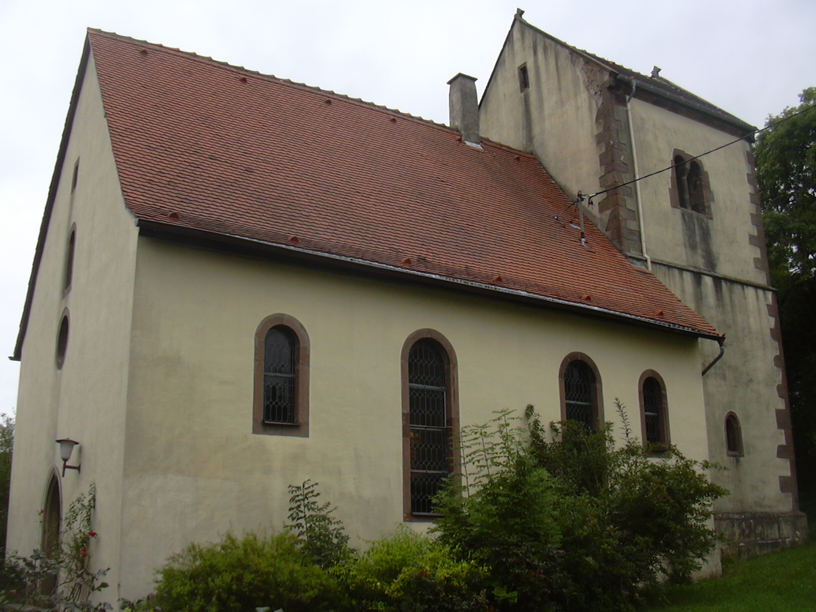 Protestant Church of St. Wendel-Dörrenbach, Saarland/Germany